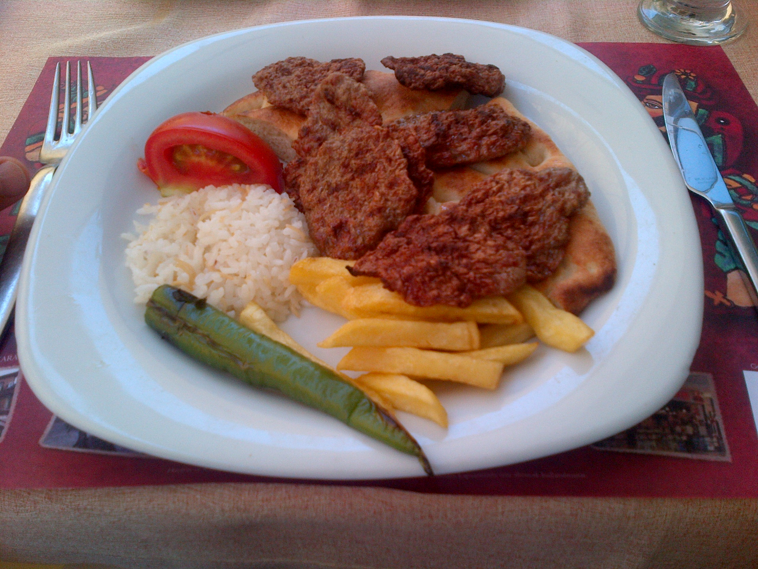 Turkish "köfte" with rice and fries.